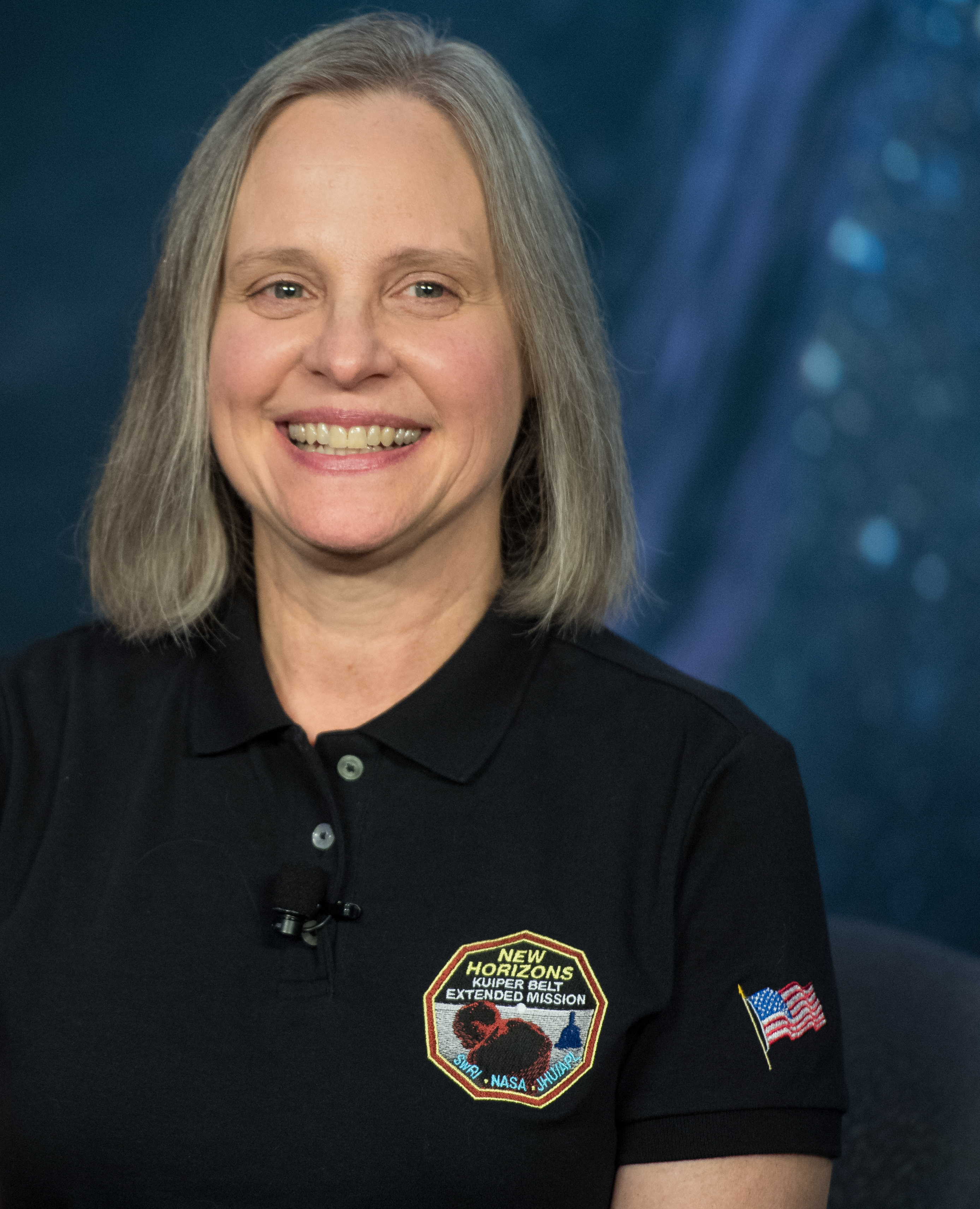 New Horizons Mission Operations Manager Alice Bowman of the Johns Hopkins University Applied Physics Laboratory is seen during a press conference after the team received confirmation from the New Horizons spacecraft that it has completed the flyby of Ultima Thule, Tuesday, Jan. 1, 2019 at Johns Hopkins University Applied Physics Laboratory (APL) in Laurel, Maryland.)